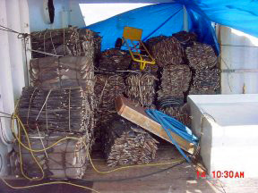 Bales of shark fins confiscated from the King Diamond II upon arrival in San Diego, CA, USA. A federal court later ruled that they were unlawfully seized and were to be returned to the ship's owners